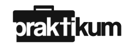 The logo of NGO Praktikum